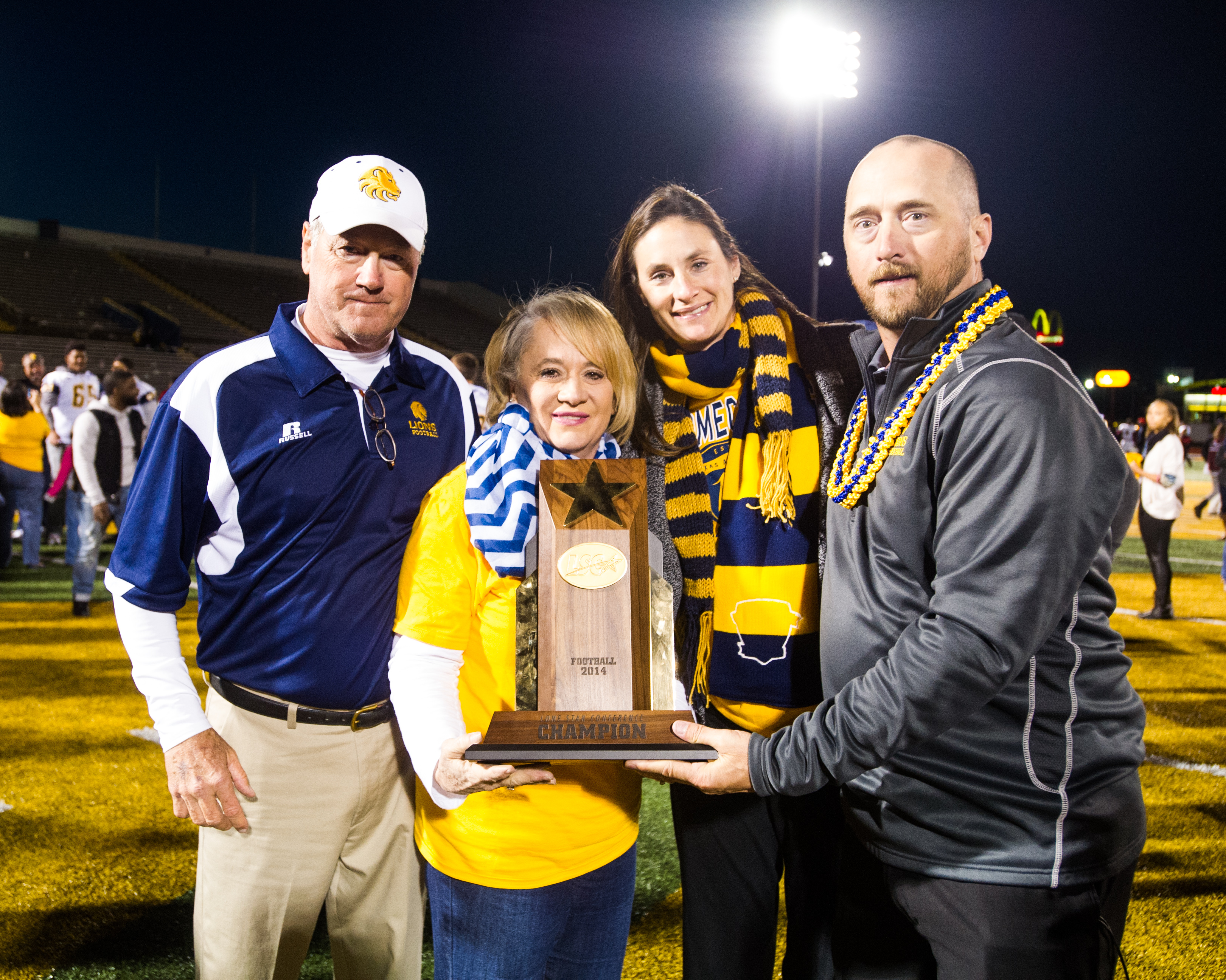 Left to right: Don Carthel, wife Cindy, daughter-in-law Sarah, and son Colby celebrate Colby Carthel's first Lone Star Conference title as Texas A&M-Commerce football head coach. Original caption: "Scenes from the McMurry War Hawks vs. Texas A&M–Commerce Lions football game and homecoming tailgate on November 1, 2014."